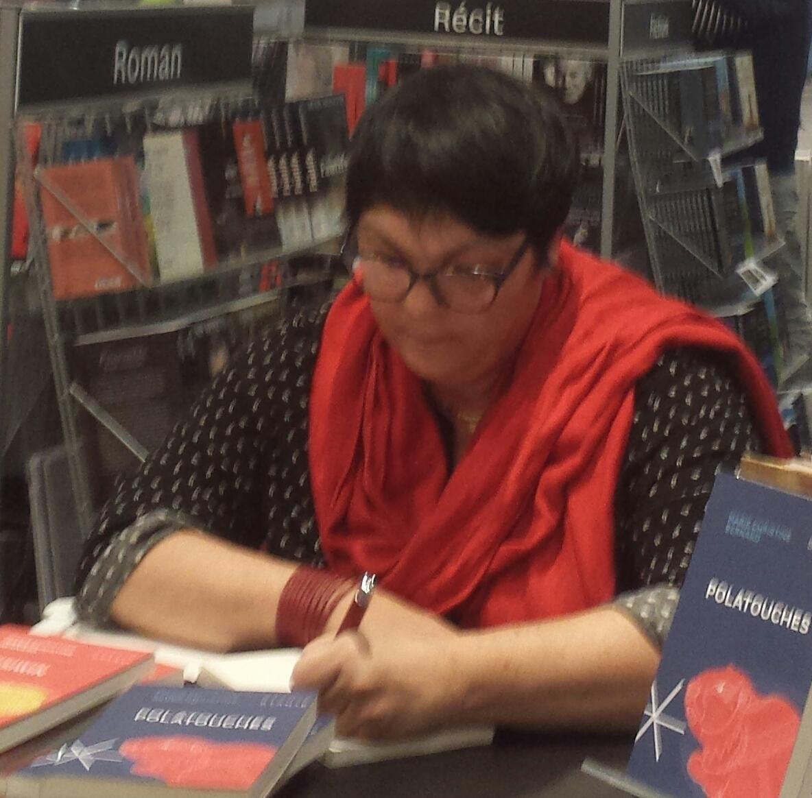 Marie Christine Bernard photographed photographed in Montréal , Québec, Canada at the Salon du livre de Montréal 2018.